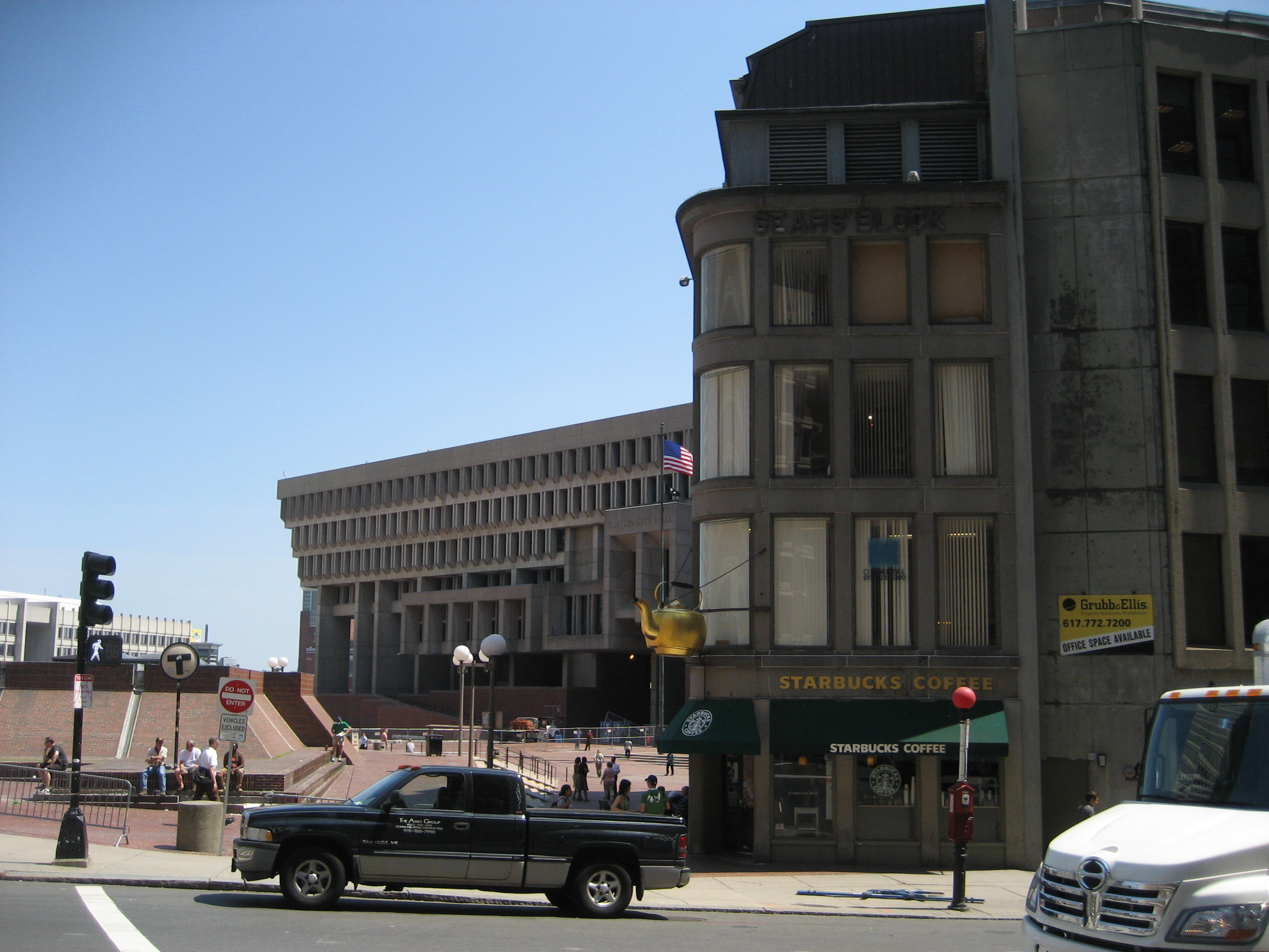 Government Center, Boston, Massachusetts. City Hall Building; to right, a Starbucks coffee shop.